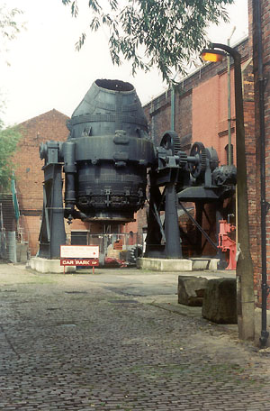 Conversor Bessemer no Museu de Kelham Island, Sheffield, South Yorkshire, {Inglaterra . foto: Wikityke